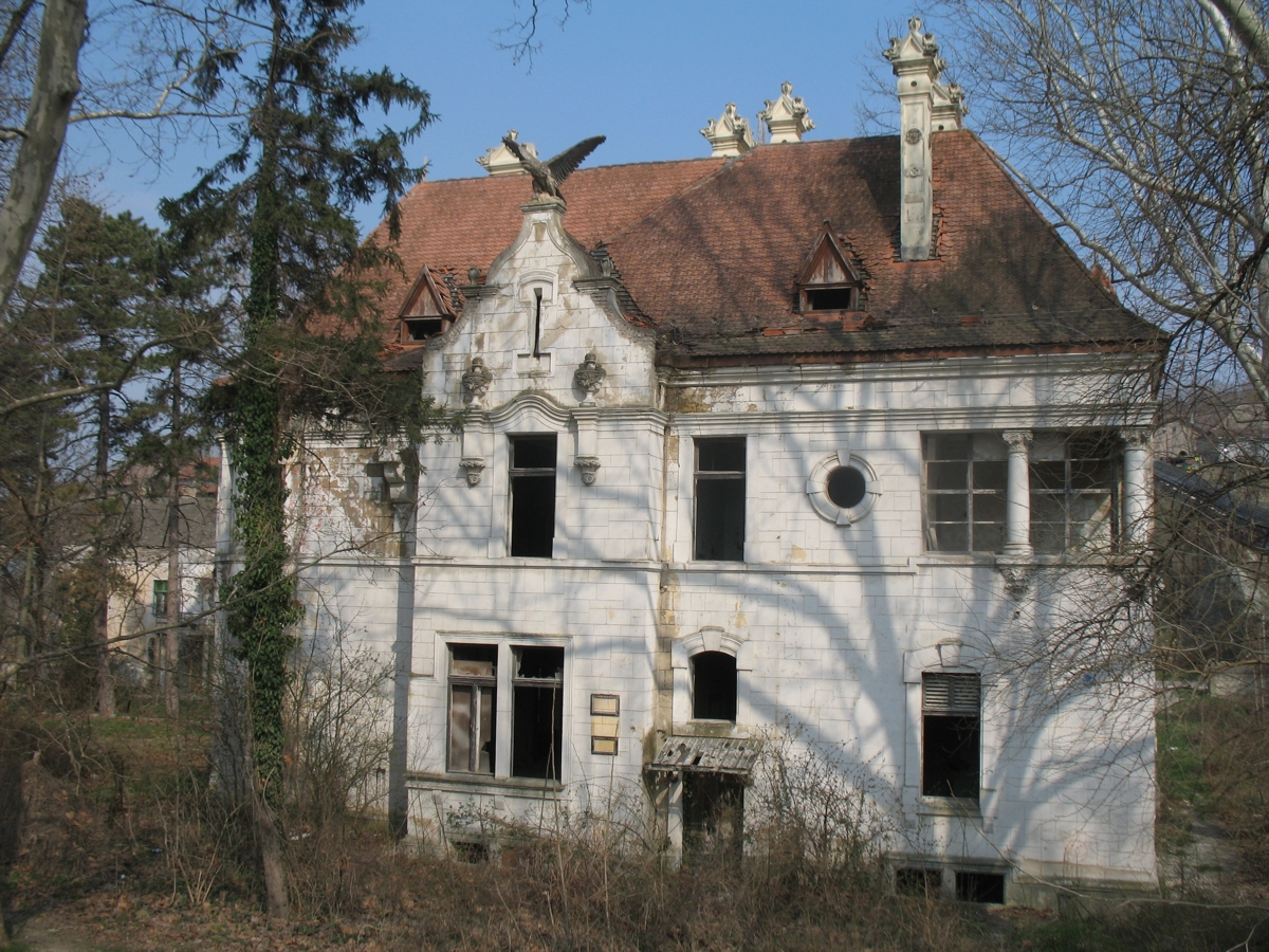 West facade of Špicer Castle in Beočin,Serbia.